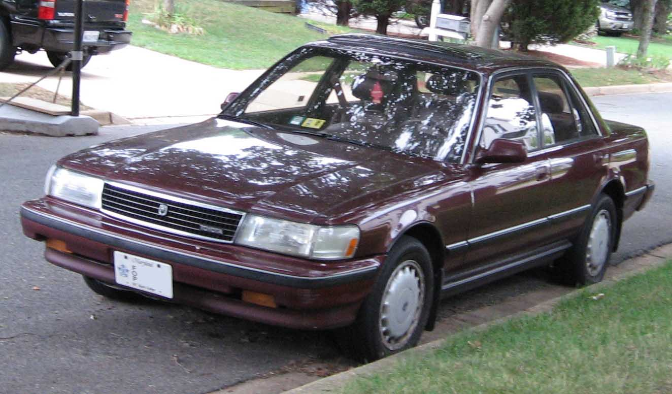 1989-1990 Toyota Cressida photographed in USA.